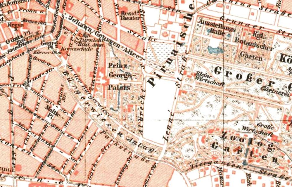 Map of Dresden, about 1895.